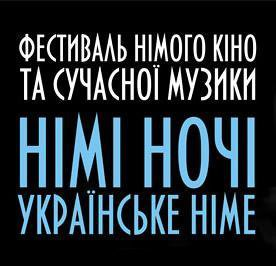 Mute Nights Festival invitation card